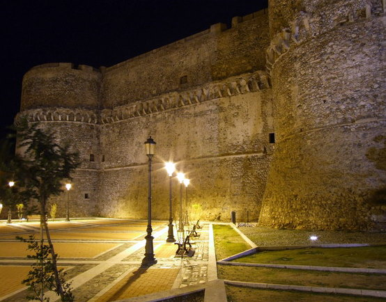 Castle's Square